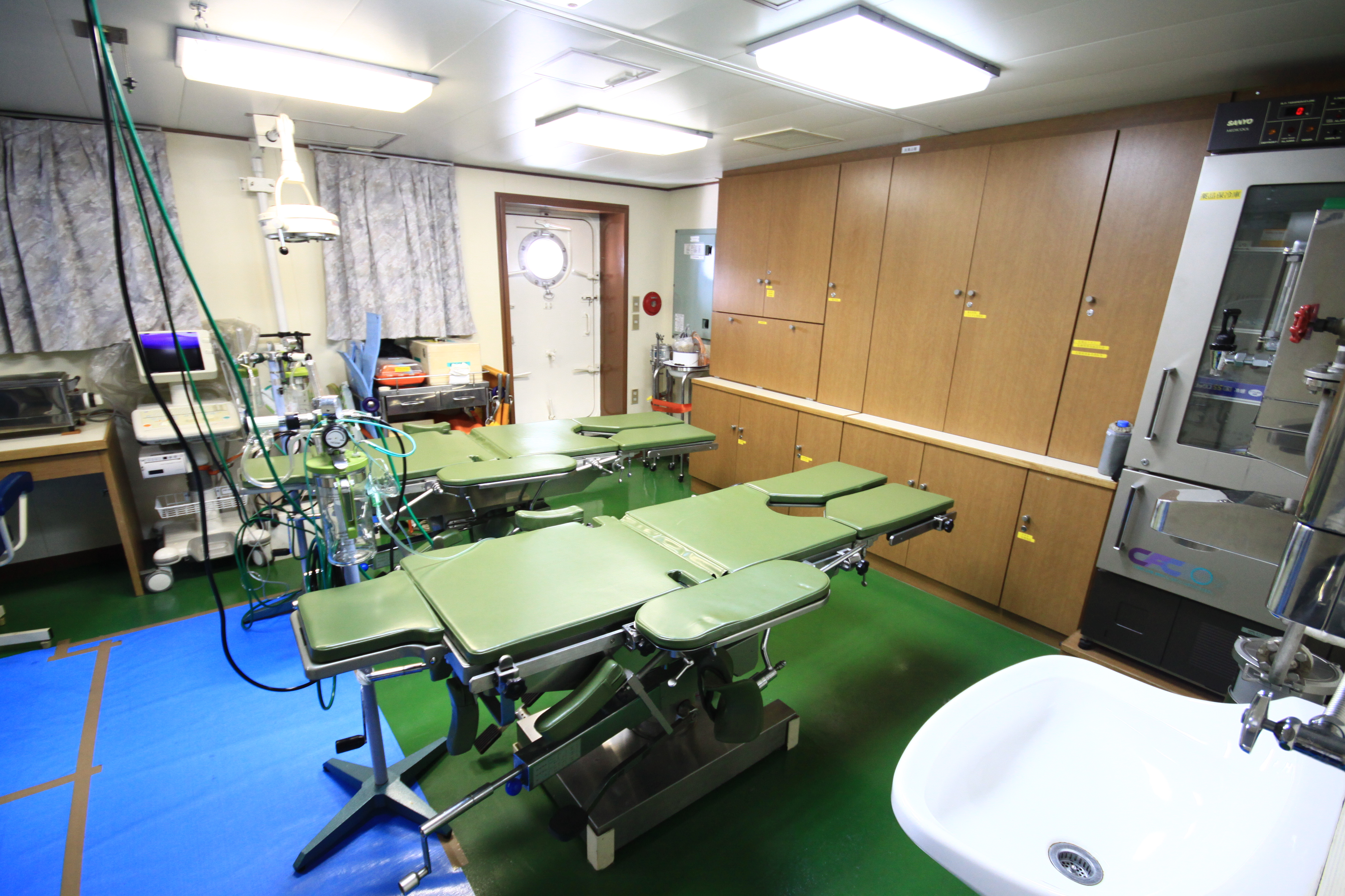 Sick bay of JCG's patrol vessel PL31 IZU.